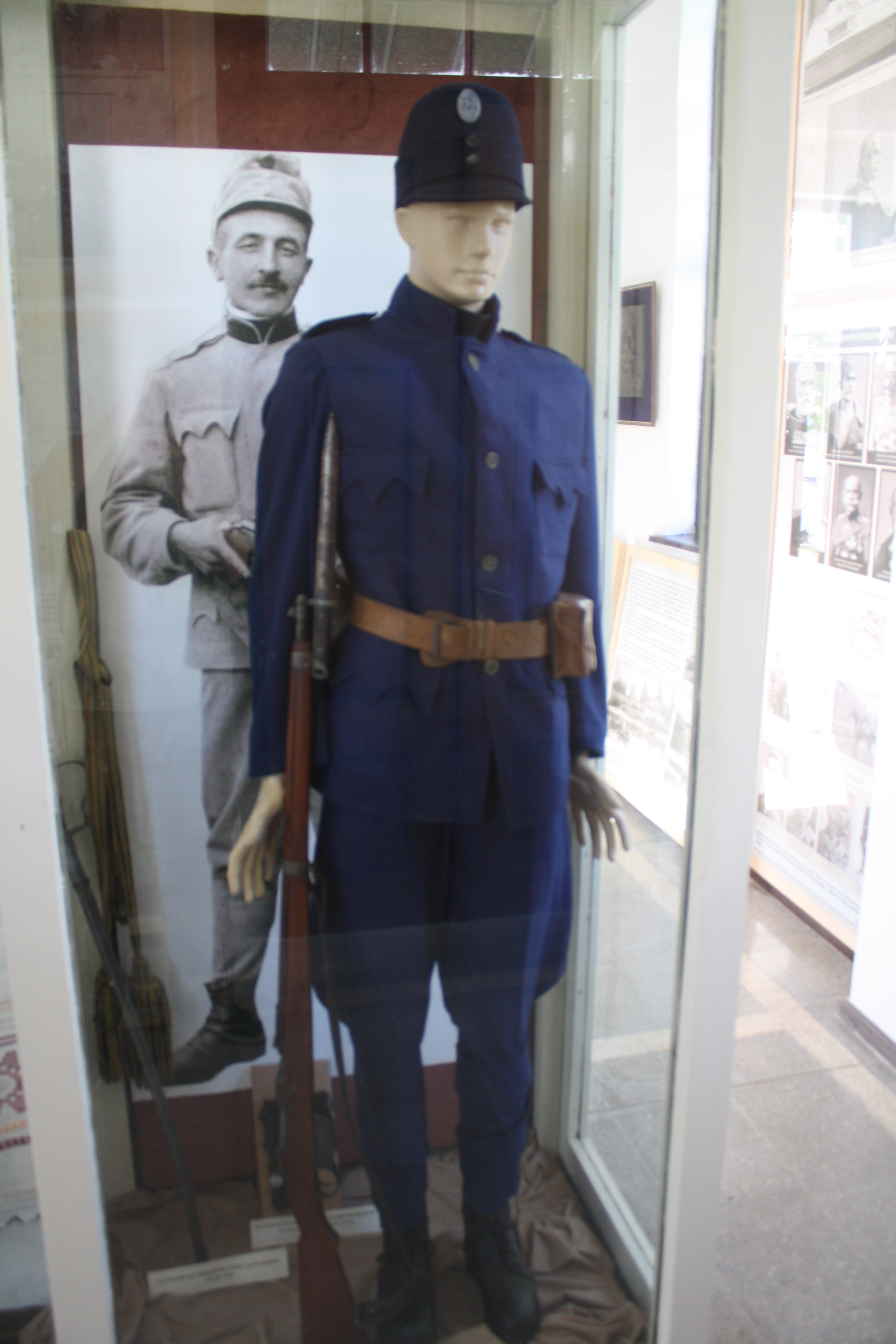 Uniform used by Austro Hugarian arm